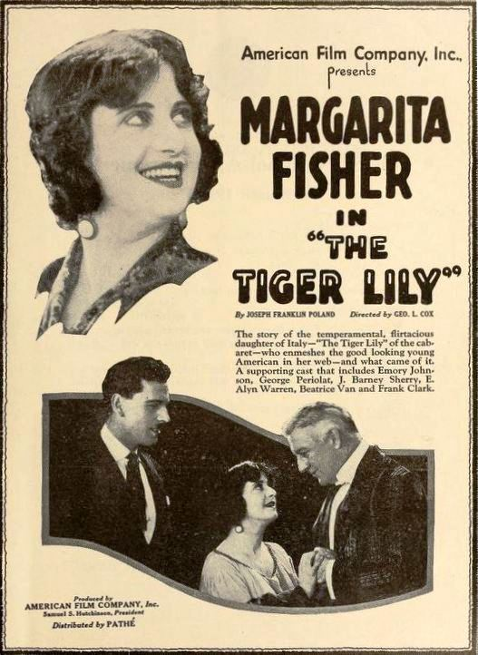 Ad for the American drama film The Tiger Lily (1919) with Margarita Fischer, on page 981 of the August 2, 1919 Motion Picture News.